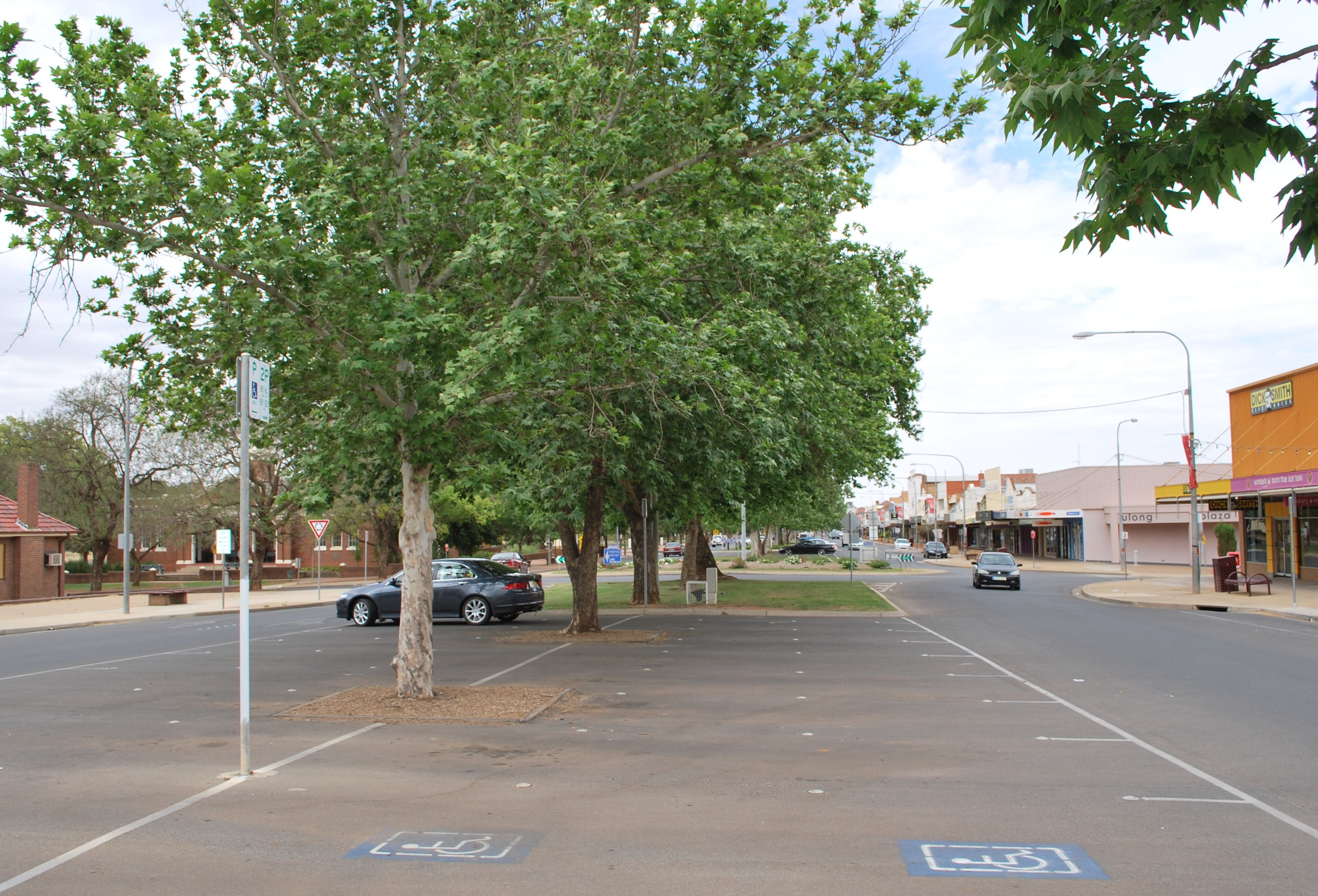 Banna Avenue in Griffith, New South Wales